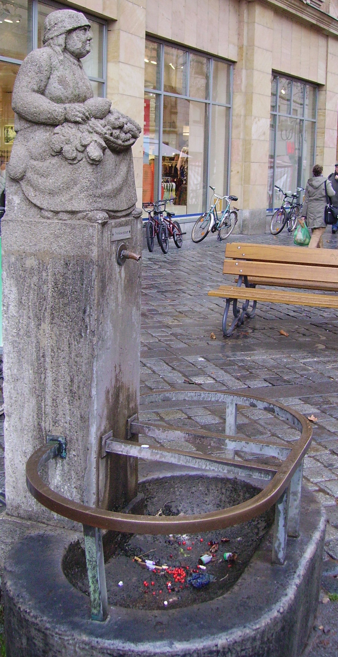 fountain in Bamberg, Germany